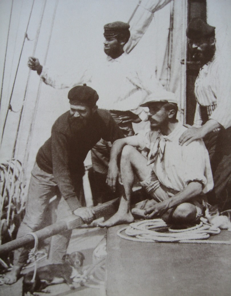 Painter George-Daniel de Monfreid (white cap) with friends on his sailboat the Follet (1880s). He soon acquired a larger boat, the Amélie. His famous son Henri (Henry de Monfreid) acquired his love for the sea and navigation while sailing the Mediterranean on the Amélie with his father.